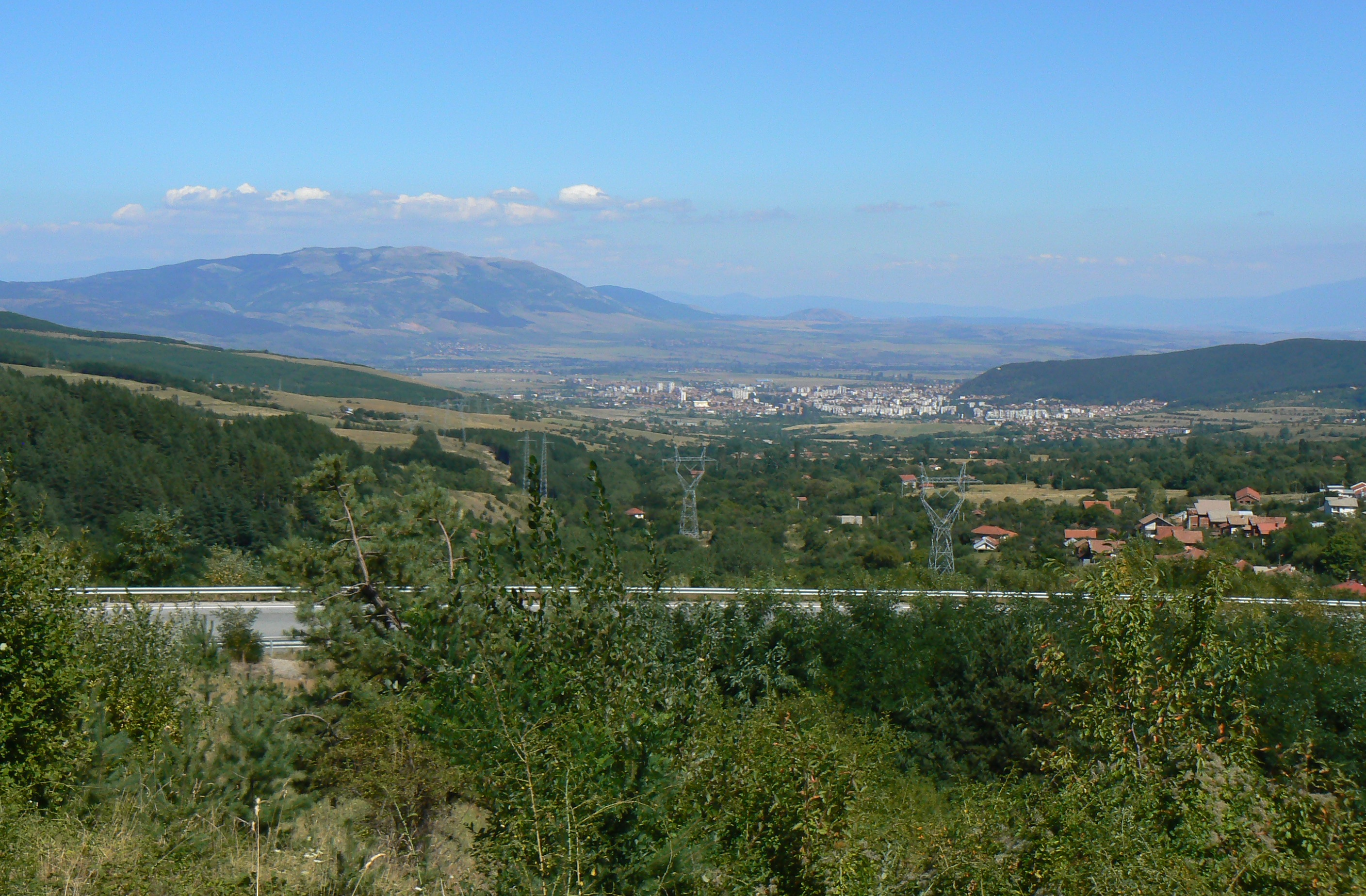 A view to the town of Kyustendil and Konyavo Mountain, Bulgaria